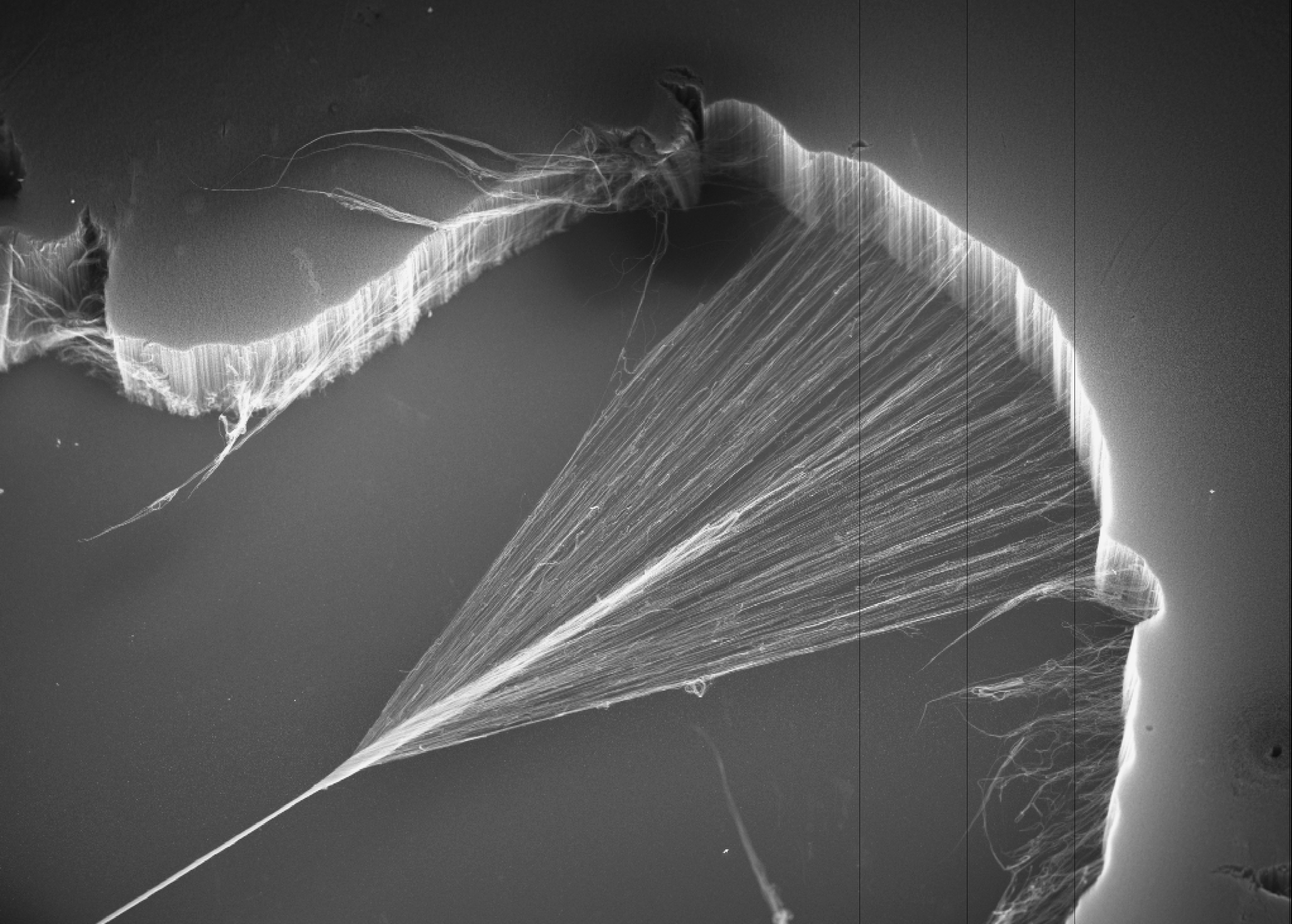 The yarn contains hundreds of thousands of fibres in cross section. Each fibre is one ten-thousandth the diameter of a typical human hair. Carbon nanotube fibres are thermally and electrically conductive , can withstand extremes of temperature and are resistant to radiation-induced degradation.Despite being strong and having a toughness comparable to that of fibers used for antiballistic vests, fabrics woven from these nanotube yarns would be soft to the touch and drapable, which is a consequence of the very small nanotube yarn diameters.Other potential applications for this material include artificial muscles, high intensity filaments for light and X-ray sources, antiballistic clothing, electronic textiles, satellite tethers, and yarns for energy storage and generation that are weavable into textiles.